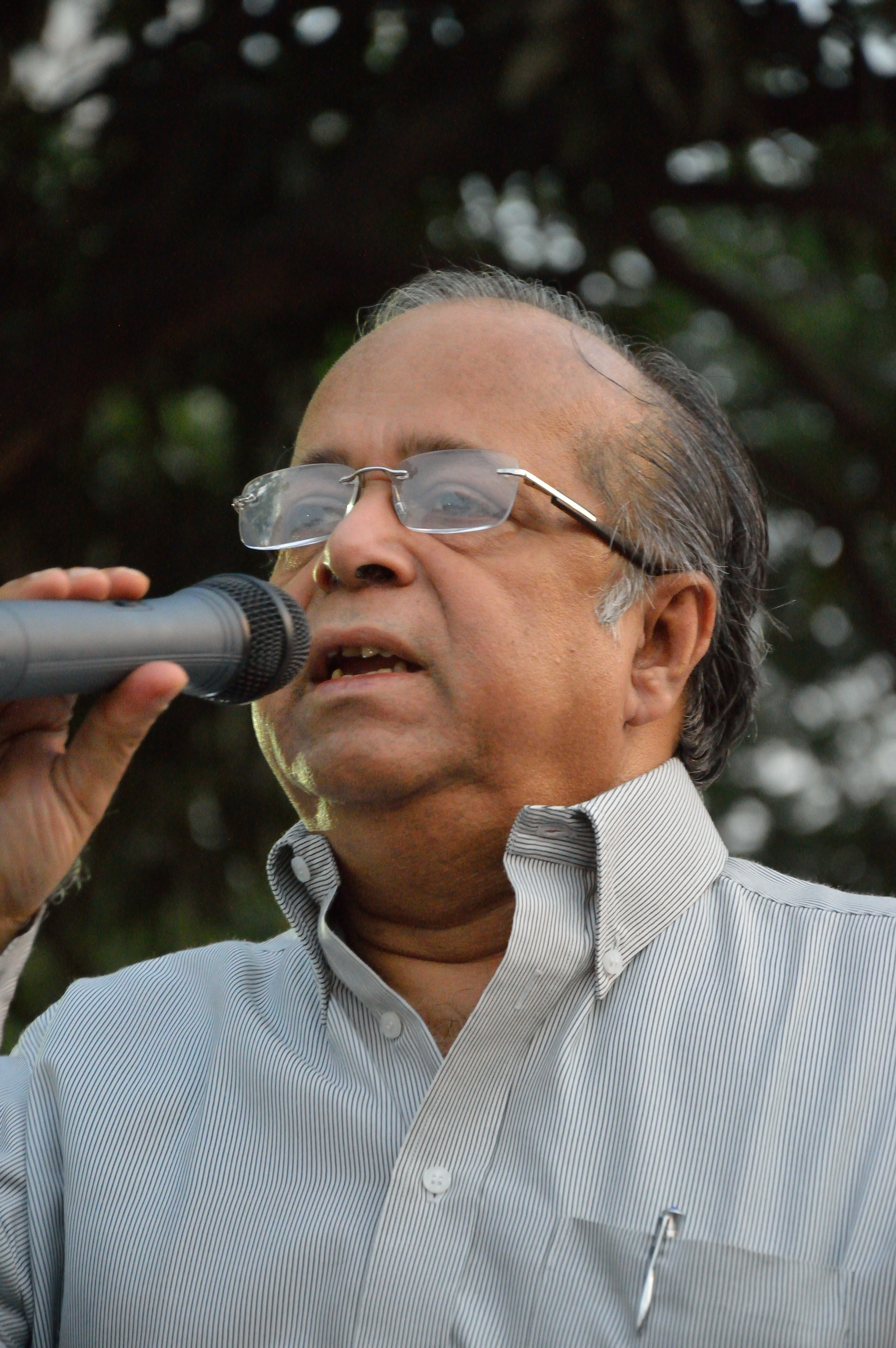 Asok Kumar Ganguly (born: 3rd February 1947) is the former Judge, Supreme Court of India. Justice Ganguly completed MA (English) in 1968 and LLB in 1970 from Calcutta University. In 1969, he started his career as a teacher in a school of which he was a student.